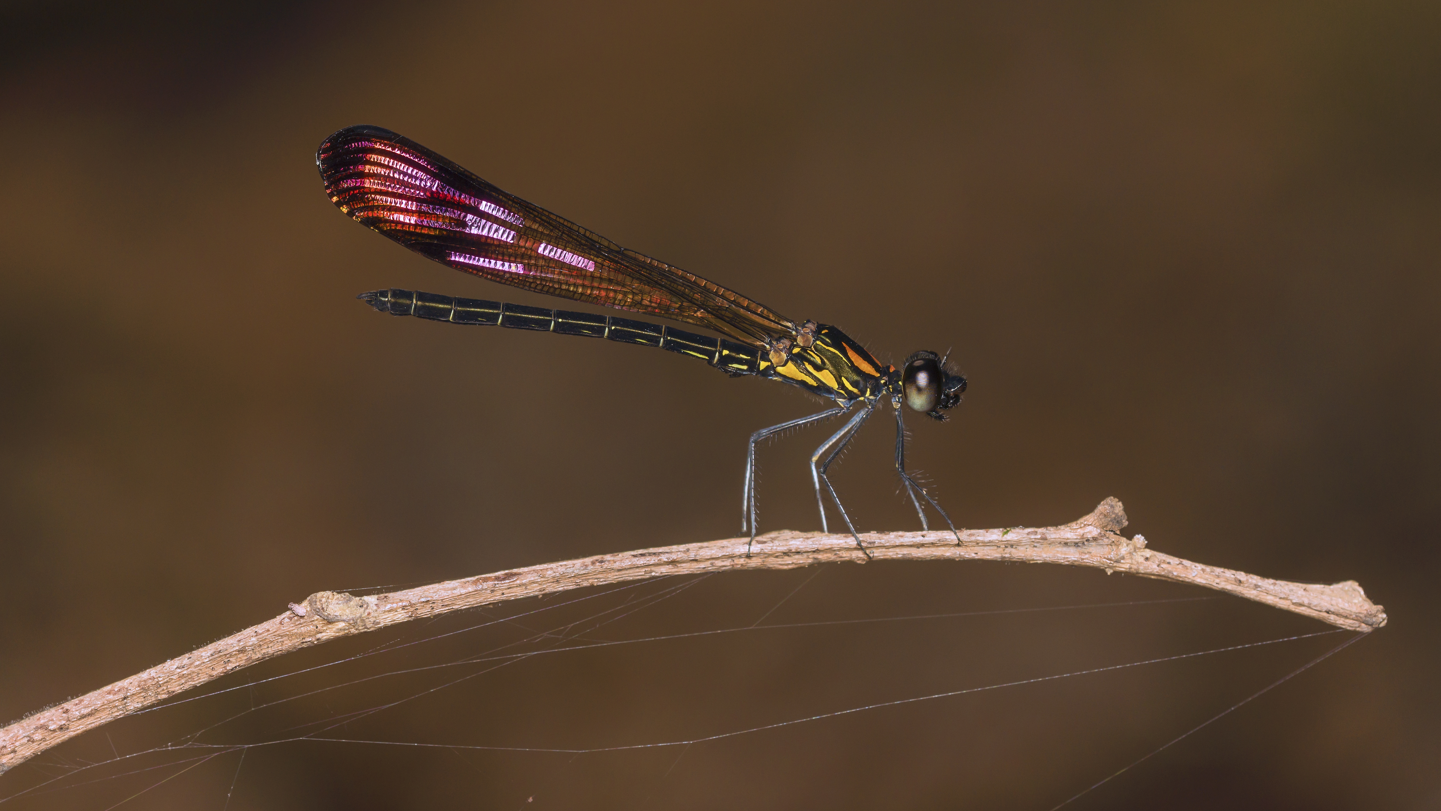 Heliocypha bisignata, Stream ruby, is a stream breeding species in the family Chlorocyphidae, endemic to India, distributed in South India. It is a small black and red damselfly with red coloured iridescent streaks on wings, which are longer than abdomen. Female is similar to male but markings more yellowish than reddish and yellow-tinted transparent wings.